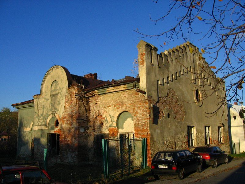 Synagogue in Grybów